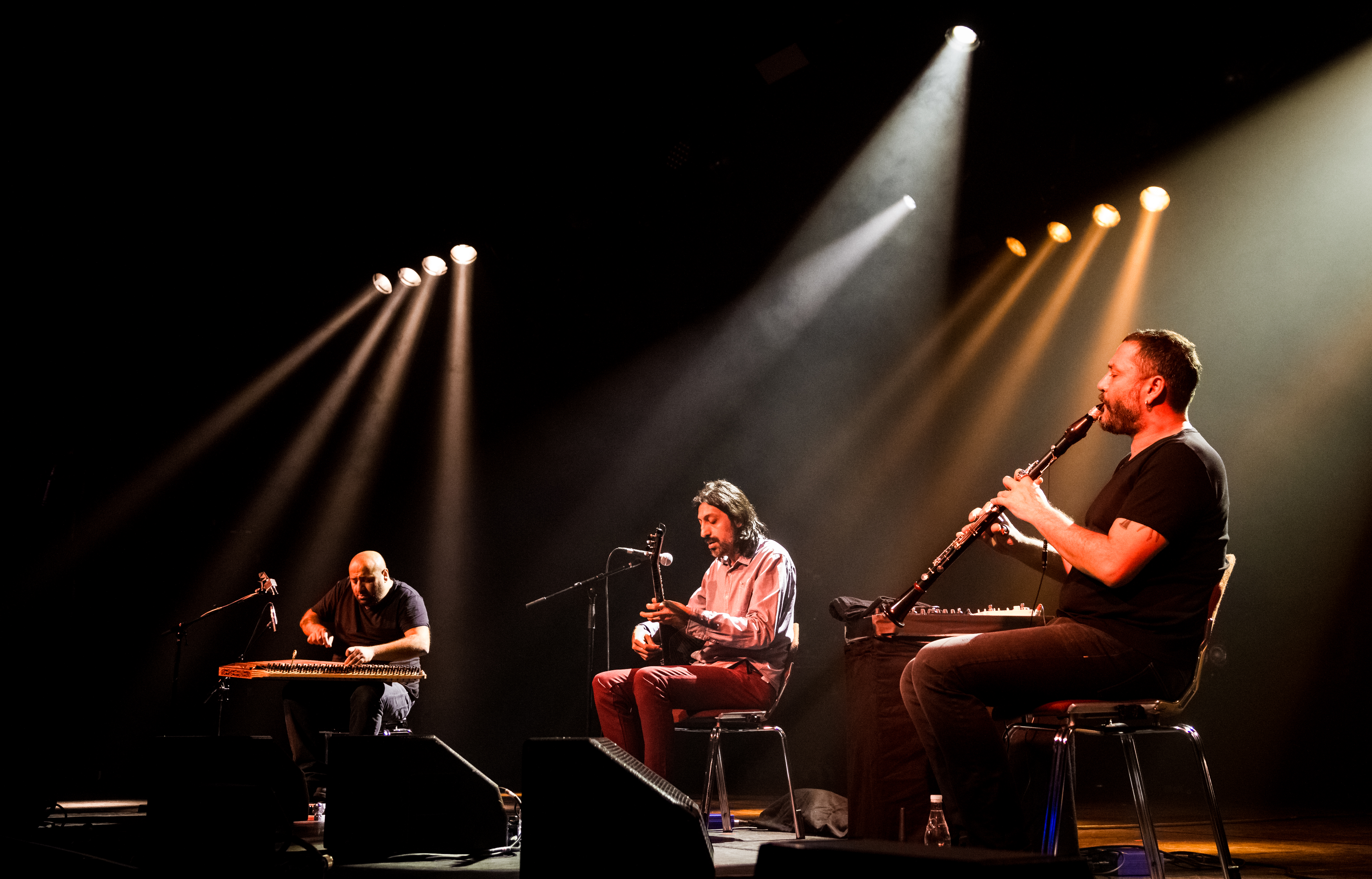 Taksim Trio - Leverkusener Jazztage 2015